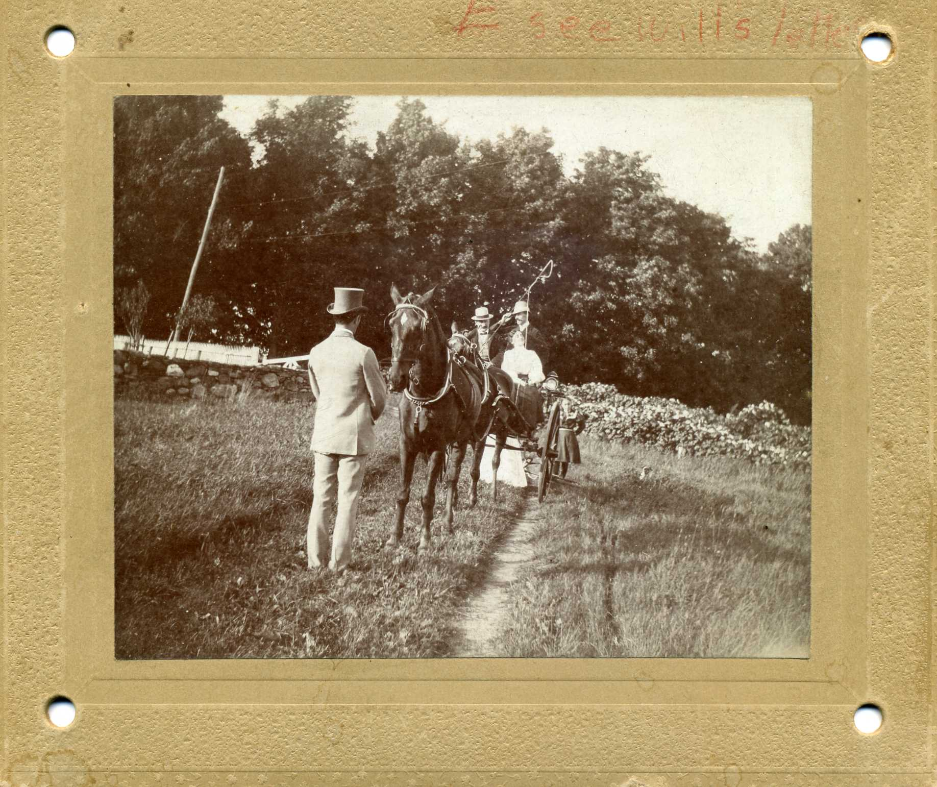 Hillside view of horses with stonewalls in background. 1890s. John B. Gough house, West Boylston, MA